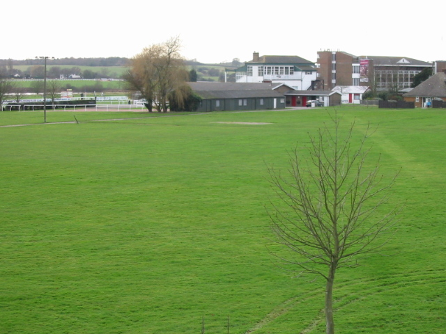 Buildings on Folkestone racecourse